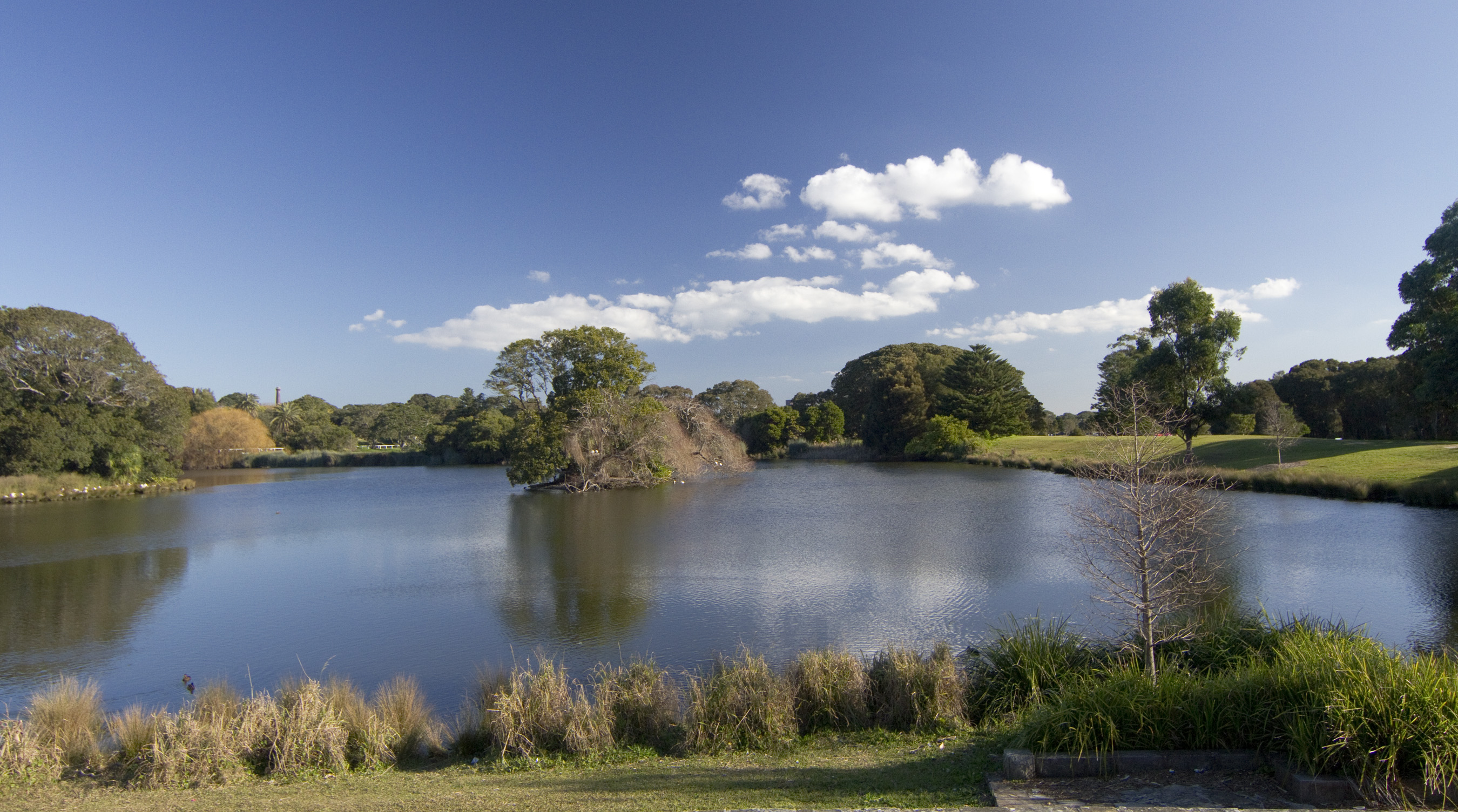 Centennial Park NSW 2021, Australia